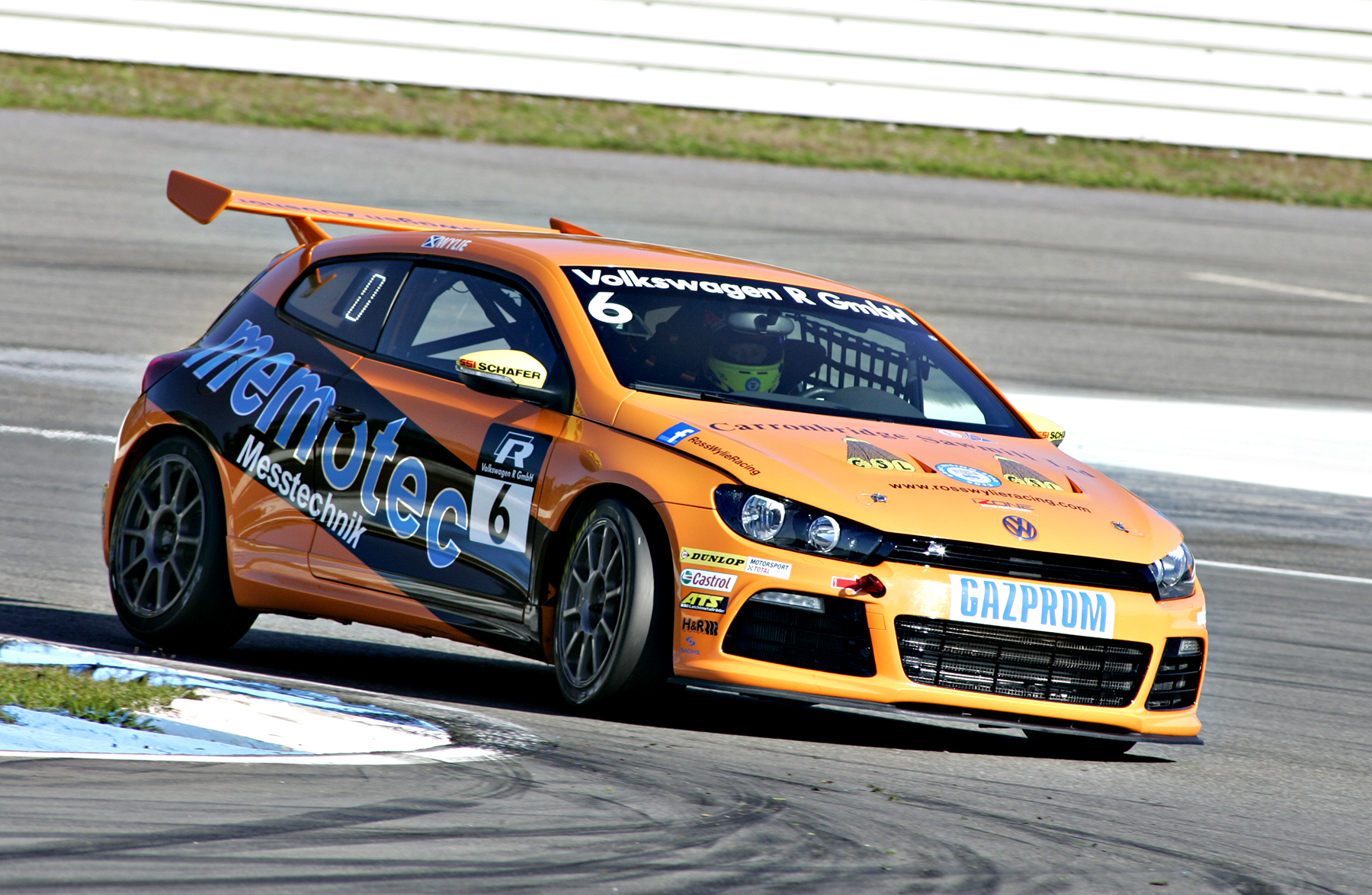 ROSS WYLIE AT THE HOCKENHEIM RACING CIRCUIT IN GERMANY FOR THE FINAL ROUND OF THE VW SCIROCCO CUP WITH ROSS WYLIE.